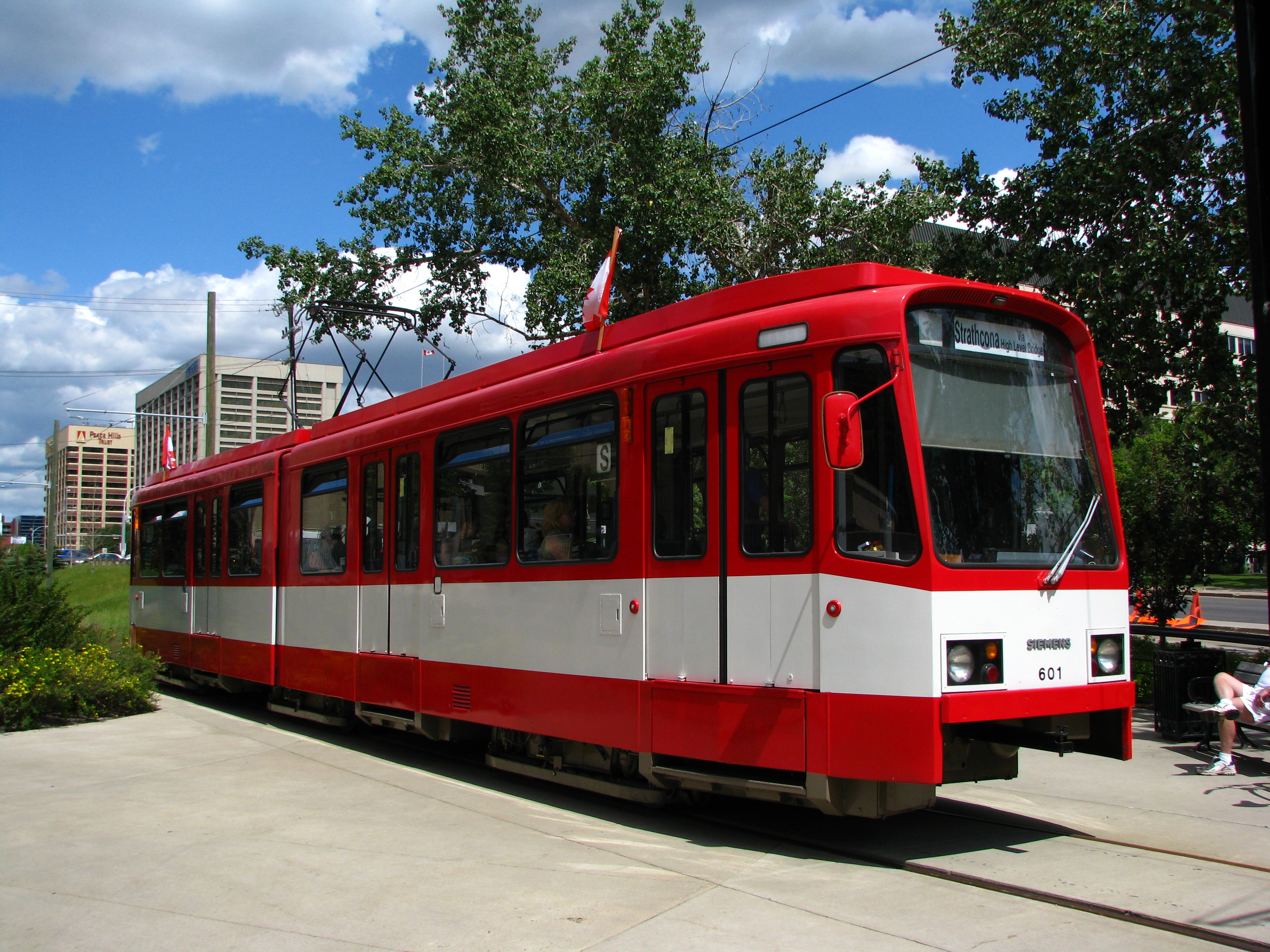 prototype LRT car #601 from Hannover, Germany on the High Level Bridge line in Edmonton, Canada